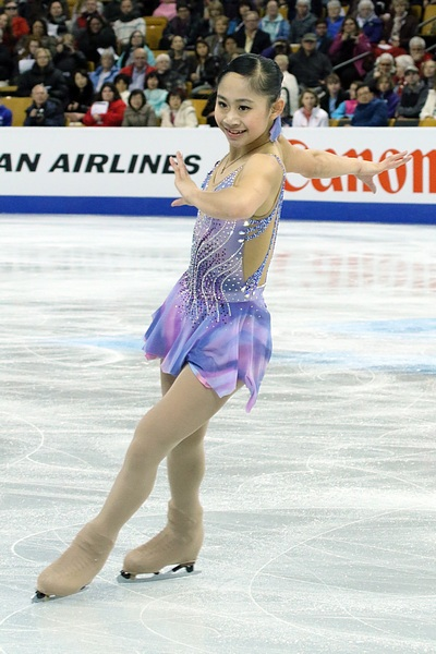 Amy Lin Photos at World Figure Skating Championships 2016 – 21st Place